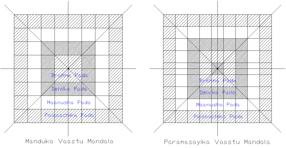 Mandalas do Vastu e Vaastu.